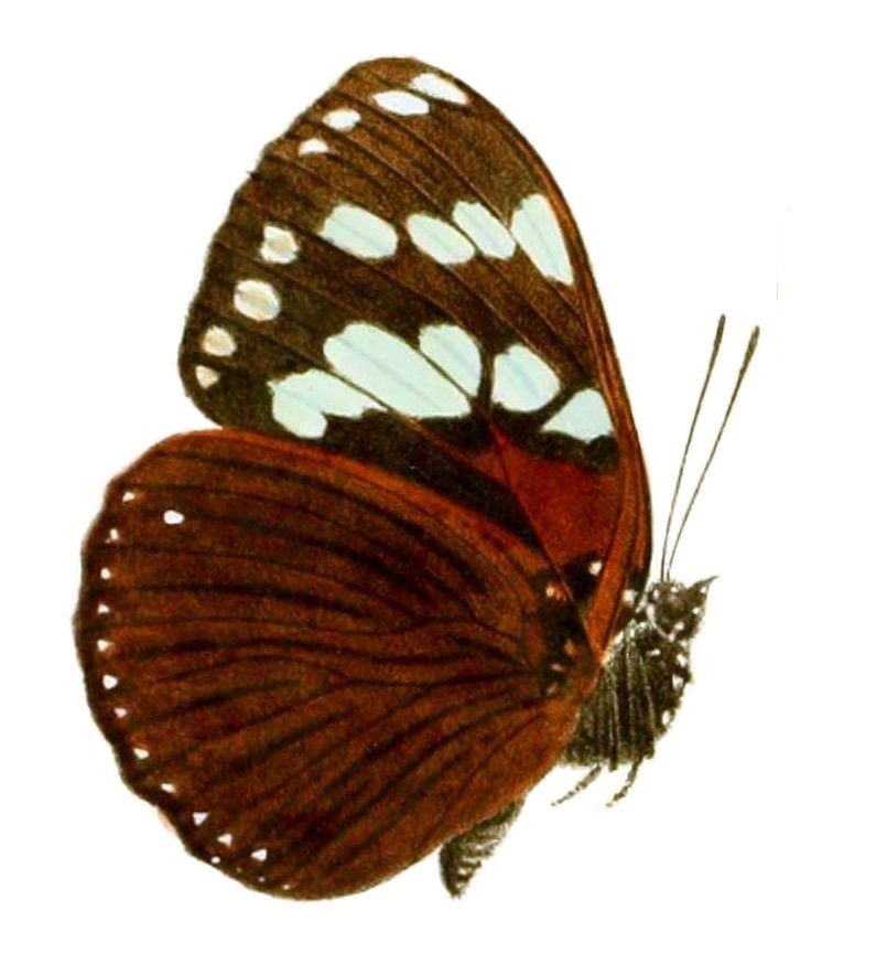 Grose-Smith, H. & Kirby, W.F. (1887-1892): Rhopalocera exotica, being illustrations of new, rare and unfigured species of butterflies London 1:x, [1-183]. Lyacaenidae Nymphalidae Euxanthe Plate 1 2. ♂ Euxanthe tiberius Grose-Smith, 1889